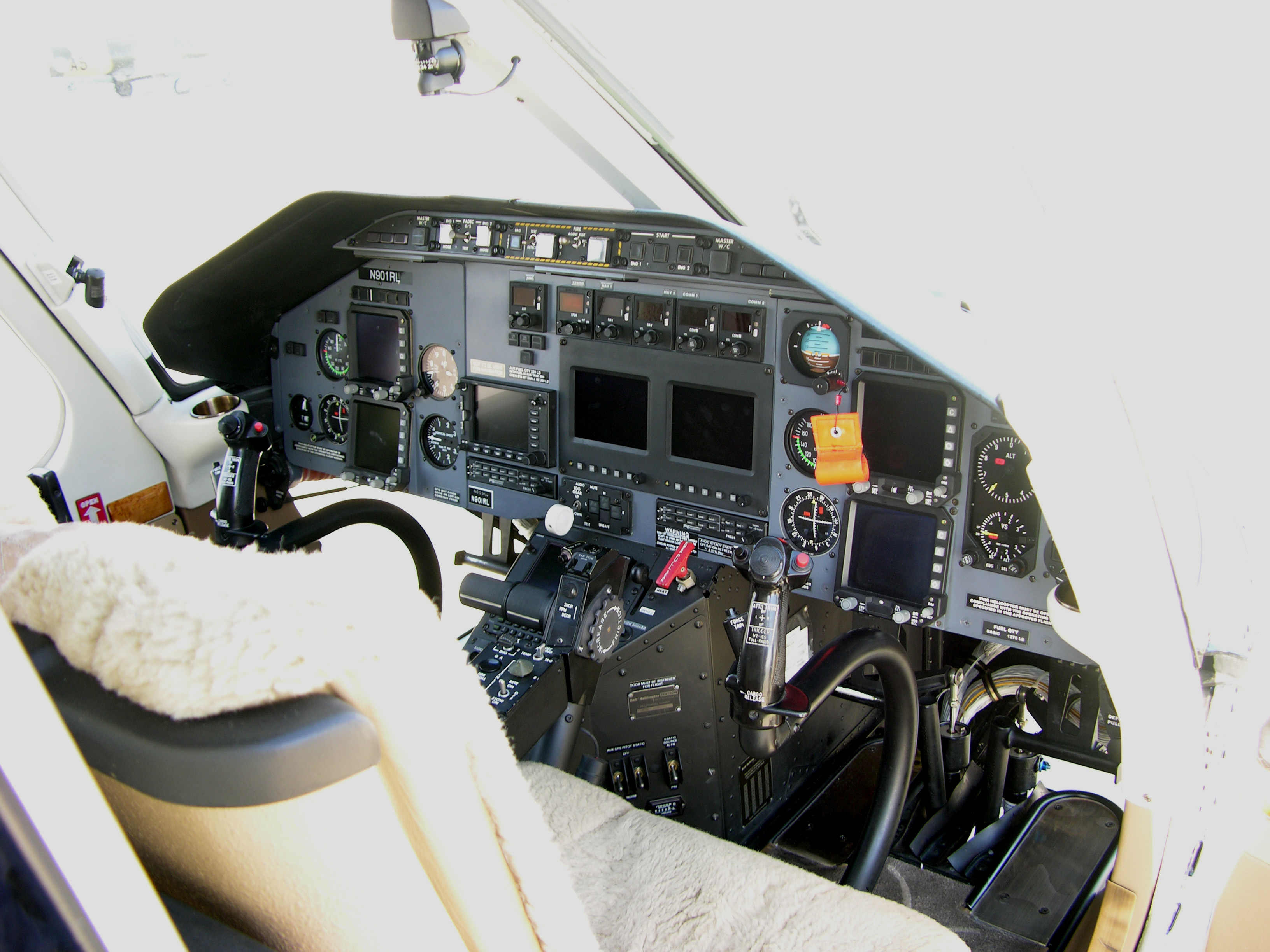 Elite Helicopters' Bell 430 at the Mojave Airport